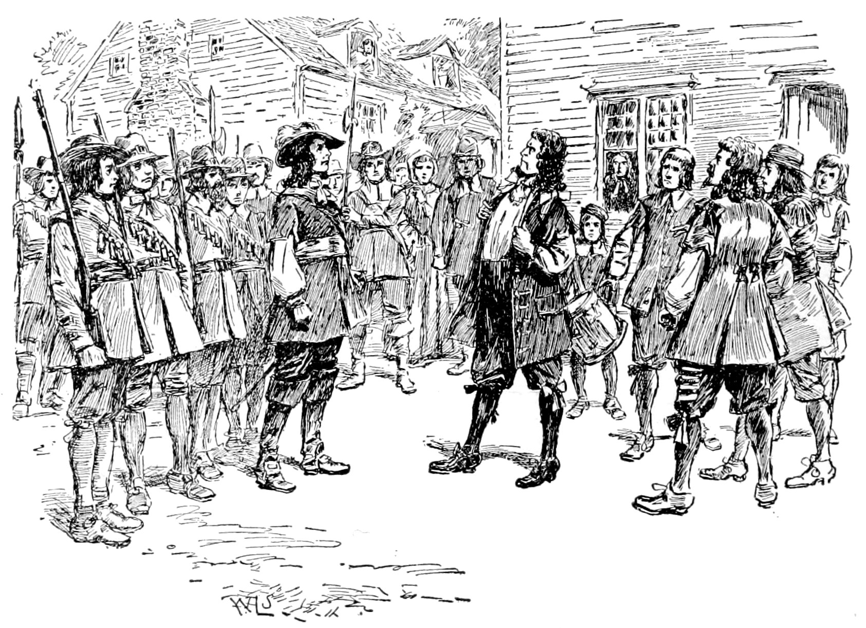 Governor William Berkeley barring his breast after refusing Nathaniel Bacon a commission, during Bacon's Rebellion in 1676. Engraving captioned "A Fair Mark - Shoot!" From A school history of the United States (1895) by Susan Pendleton Lee available at the Internet Archive. (cropped and levels adjusted)